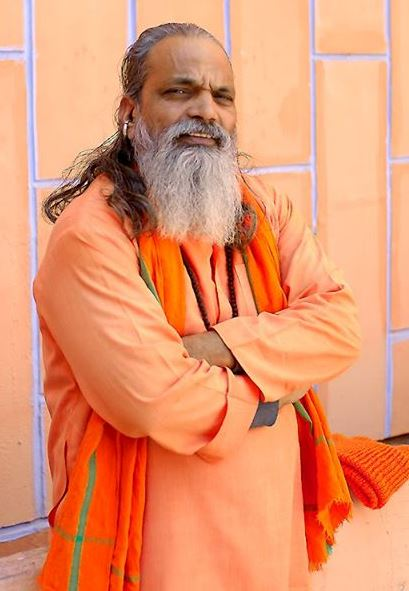 Yogi Vilasnath